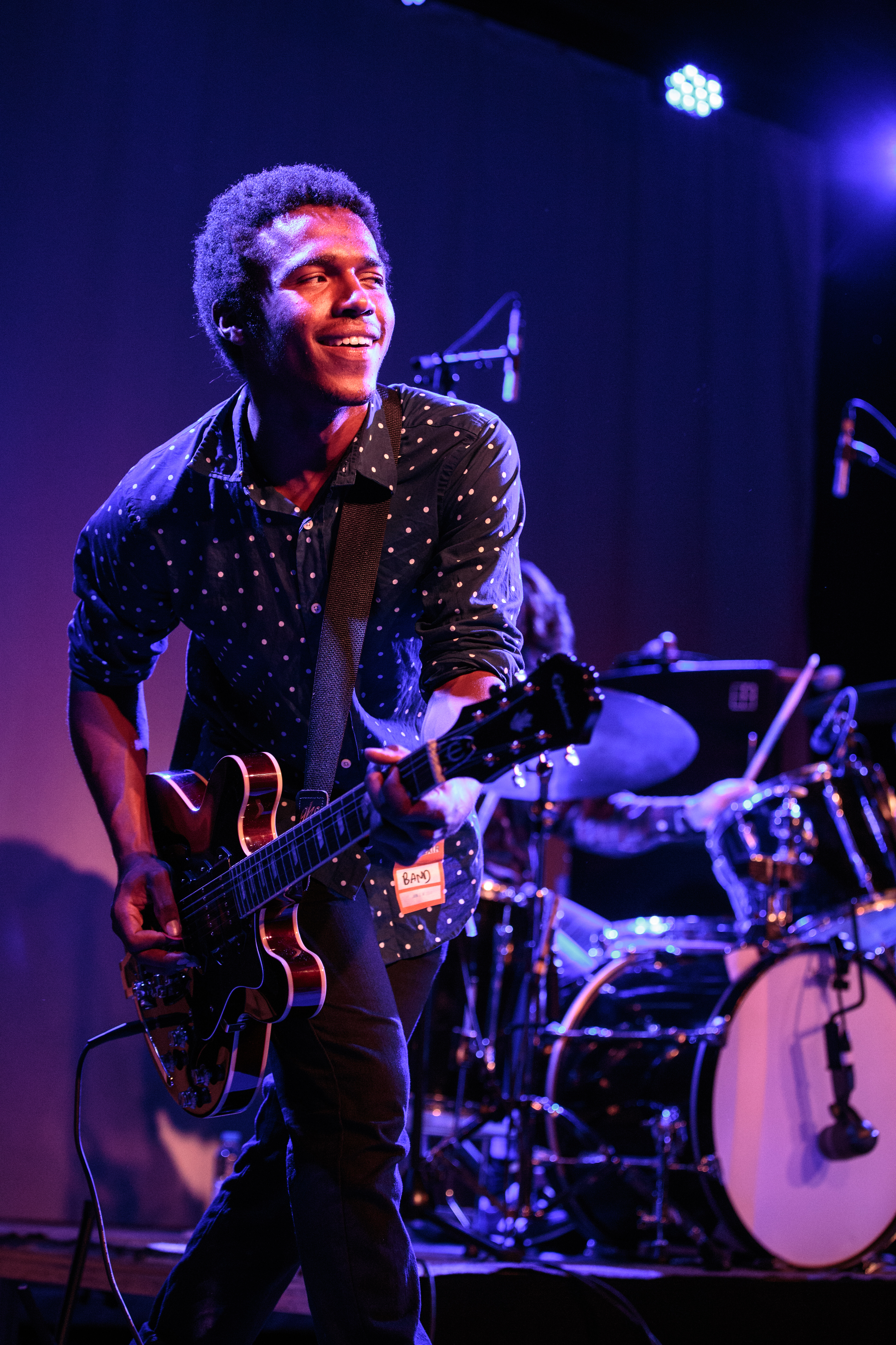 CAMBRIDGE, MA - JUNE 18: Australian upstart Courtney Barnett plays her first tour in the US, with support from Benjamin Booker. Shot at The SInclair in Cambridge, MA on Sunday, June 18th. © Tim Bugbee / tinnitus photography